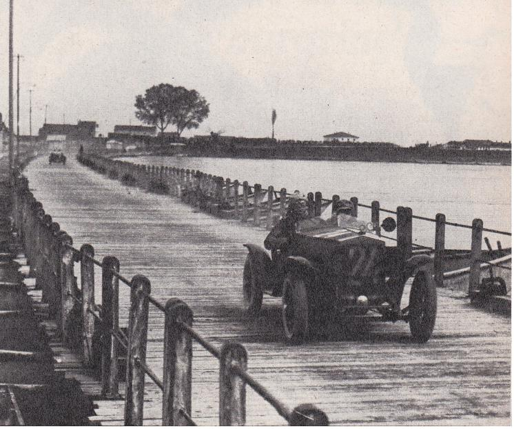 Lancia Lambda #24 at Mille Miglia on 27 Marz 1927 was driven by Augosto Battaglini (sold Lancia in Firenze) and another Battaglini (his brother). This may have been the "Lancia Lambda VII° Serie Corsa" telaio 16671 motore 5806 that was for sale in 2016.[1]